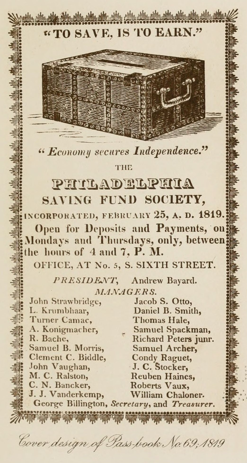 Passbook cover indicating the President and managers of PSFS, including J. J. Vanderkemp